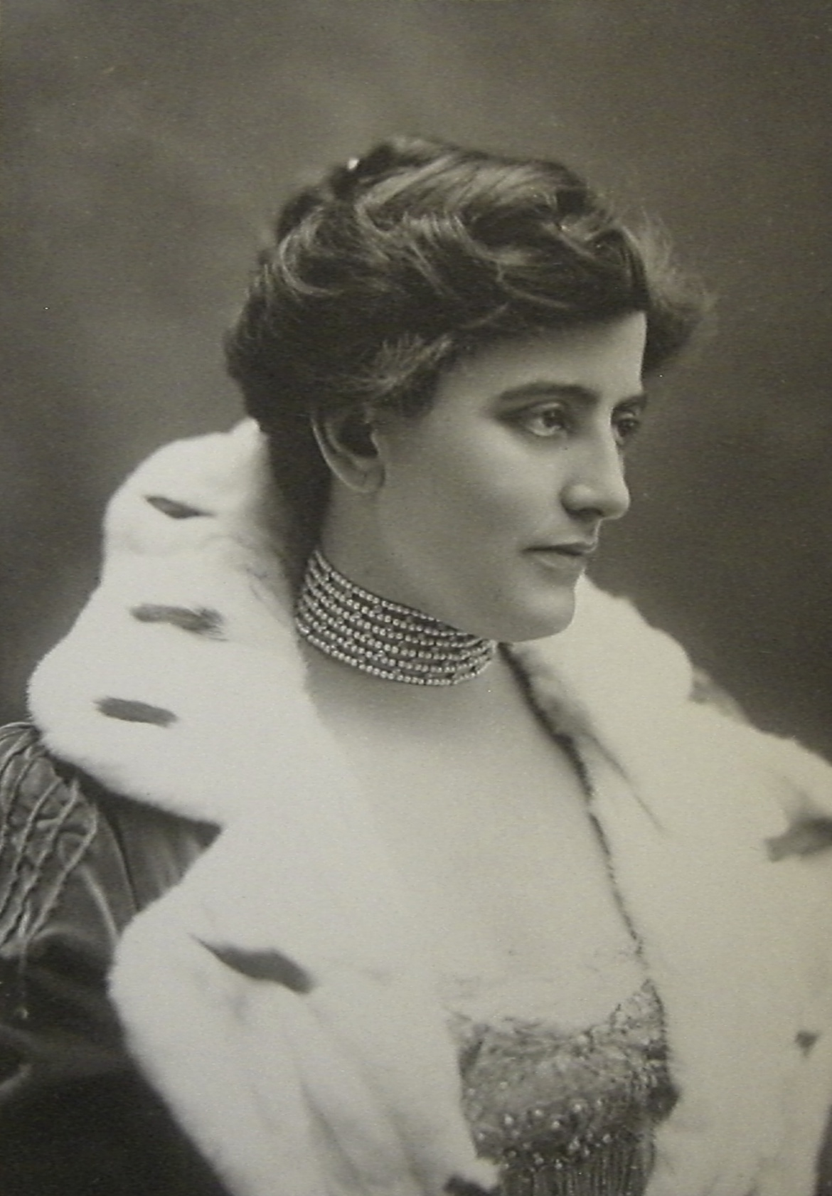 Photographer: Burr McIntosh Performer: Maxine Elliott Feature: Buying and Selling Cabinet Cards 1865-1905 Provenance/Credit: Shields Collection ex-Culver Service